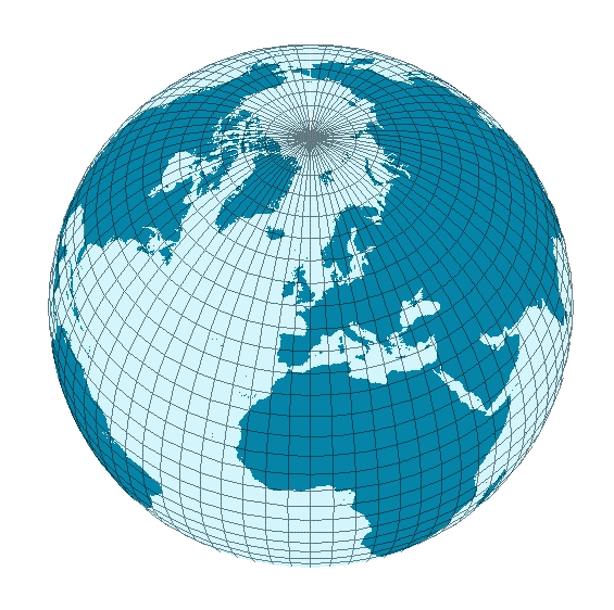 Land hemisphere